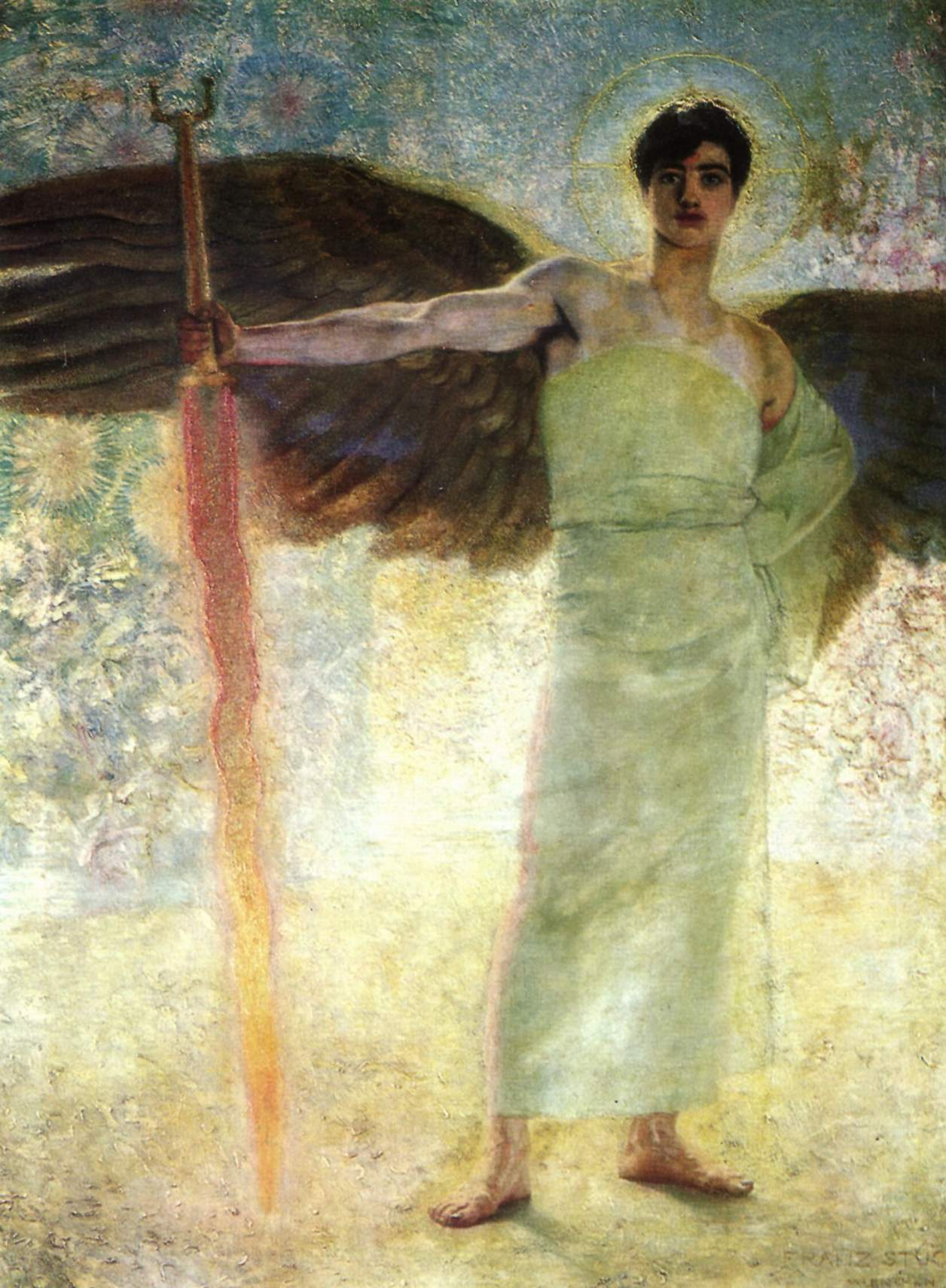 symbolist painting